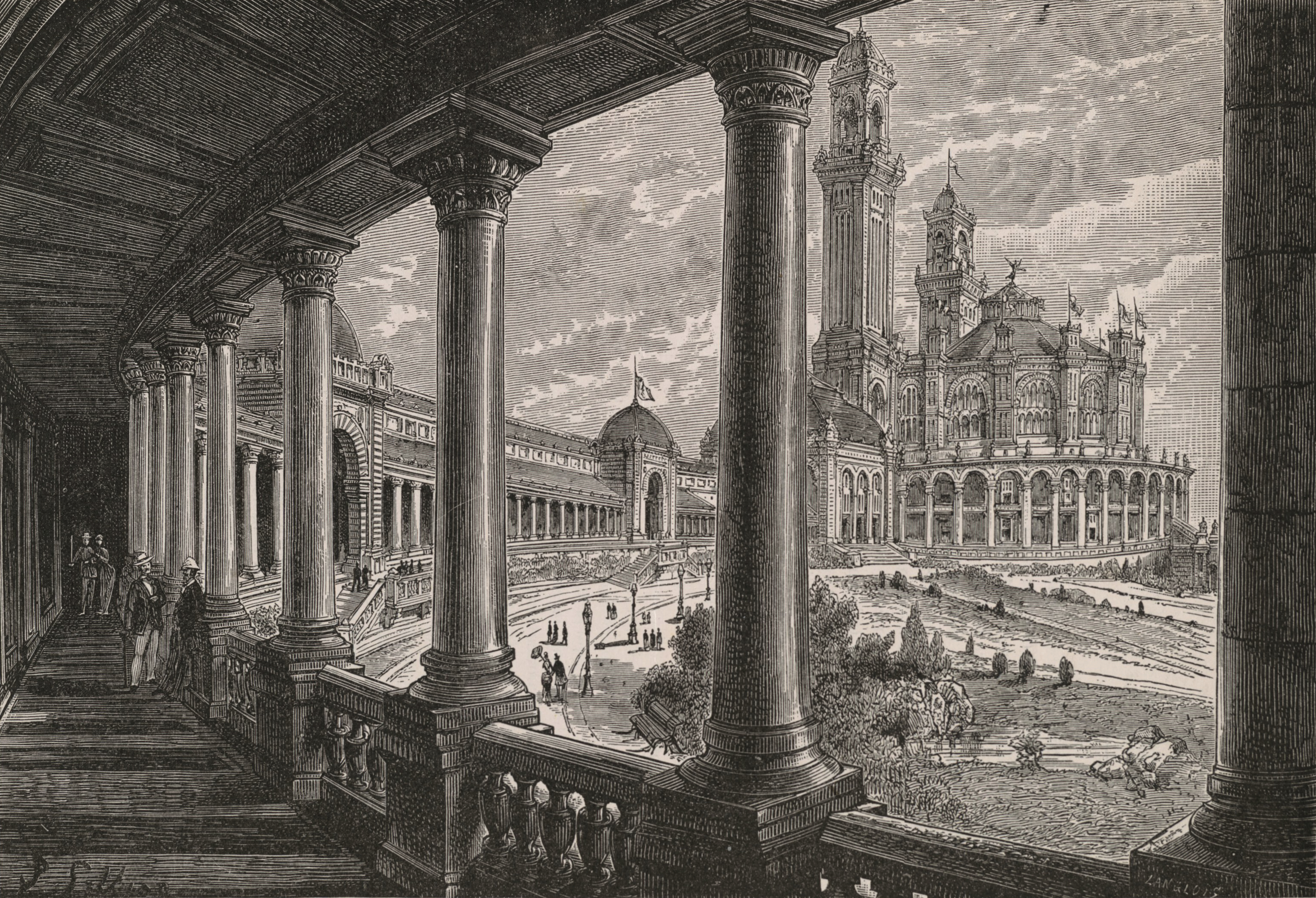 The Palais du Trocadéro had been constructed for the 1878 World Fair by Davioud and Bourdais. The building had three parts: the monumental central rotunda served as a reception hall and concert hall which could contain about 5,000 people. The two galleries on each side ran from the rotunda to the outside of the building, and were inspired by St Peter's Piazza in Rome. In 1889 the galleries served as exhibition halls for horticultural displays. The two towers on each side of the rotunda were modelled after the Algiers Mosque, which, at the time, served as a cathedral. The Palais was eventually damaged by a fire in 1935, and no longer exists. This view is taken from the galleries around the building.